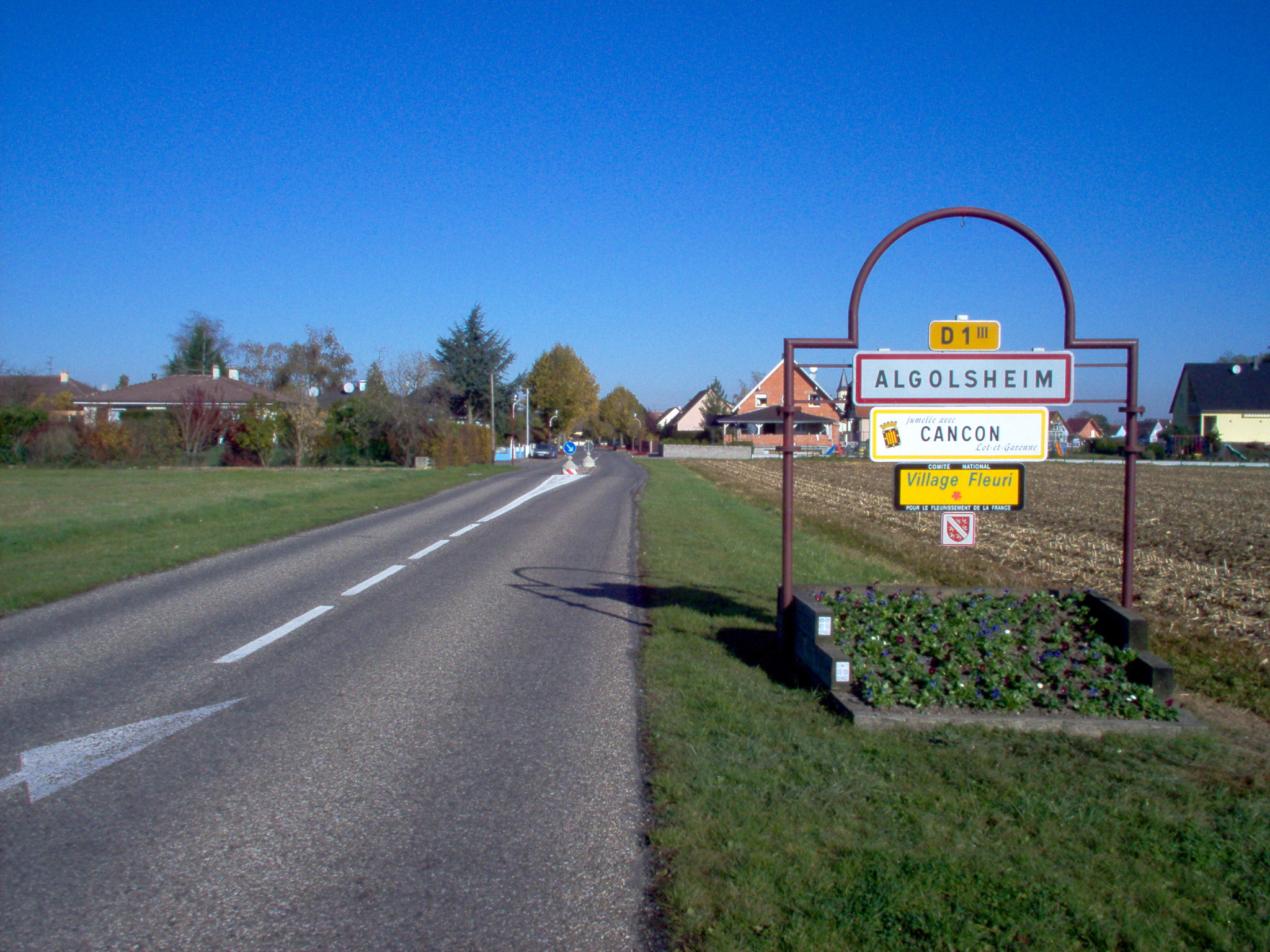 City of Algolsheim in France.